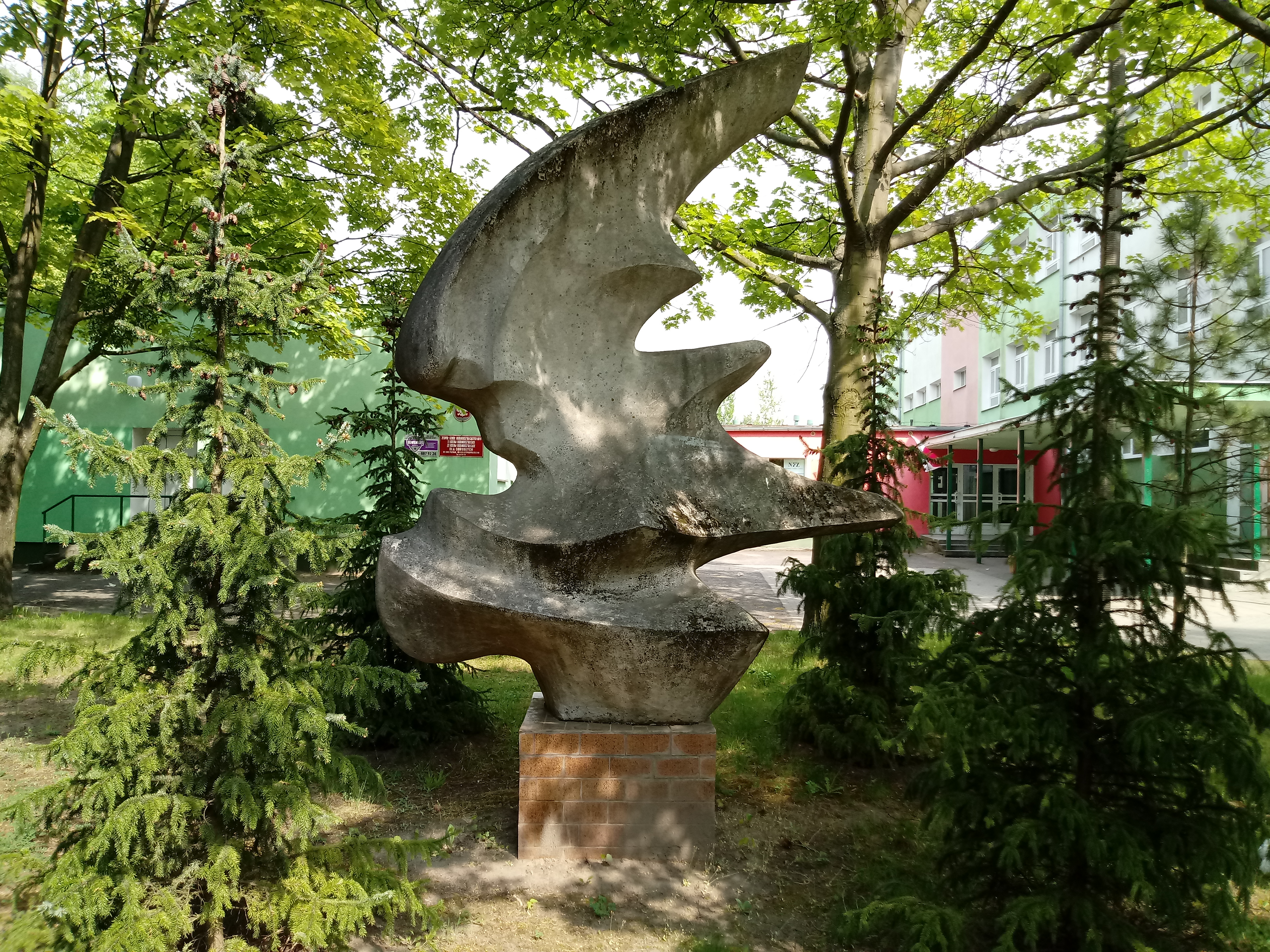 Sculpture The Flight (pl. Lot). Sculptor: Jerzy Sobociński, 1981, artificial stone. Os. Rzeczypospolitej in Poznań, Poland.